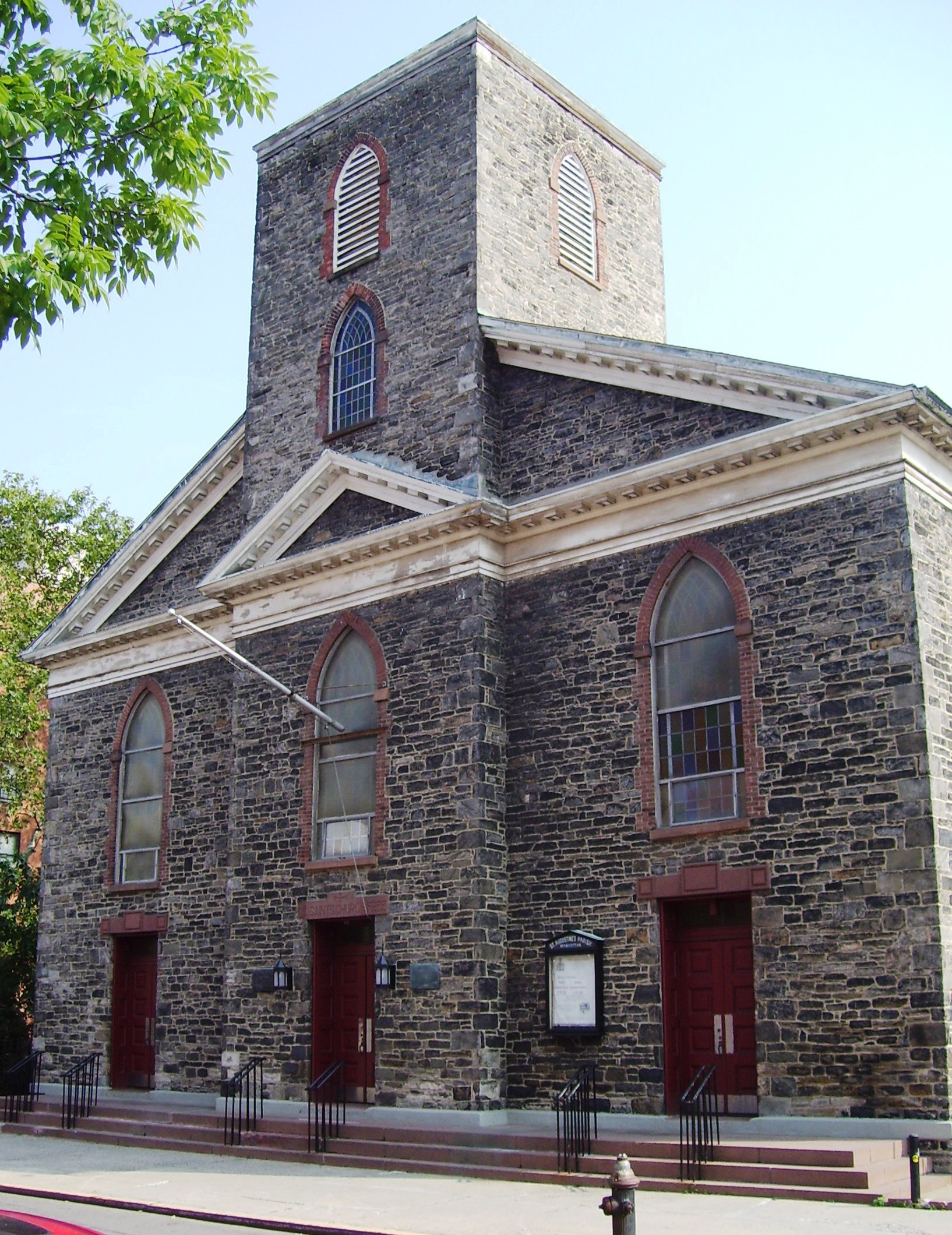 St. Augustine's Church at 290 Henry Street between Montgomery and Grand Streets in the Lower East Side of Manhattan, New York City, was built in 1827-29 as the All Saints' Free Church, and was constructed out of Manhattan schist. The Georgian-Gothic design is credited to John Heath, and includes a double pediment and a projecting tower. The church was enlarged in 1848. In 1949, the congregation merged with St. Augustine's Chapel of Trinity Church, located at 107 East Houston Street, and the new combined congregation used the sanctuary on Henry Street, which was made a NYC landmark in 1966. It became an independent parish in 1976. (Sources: Guide to NYC Landmarks (4th ed.) and AIA Guide to NYC (4th ed.))